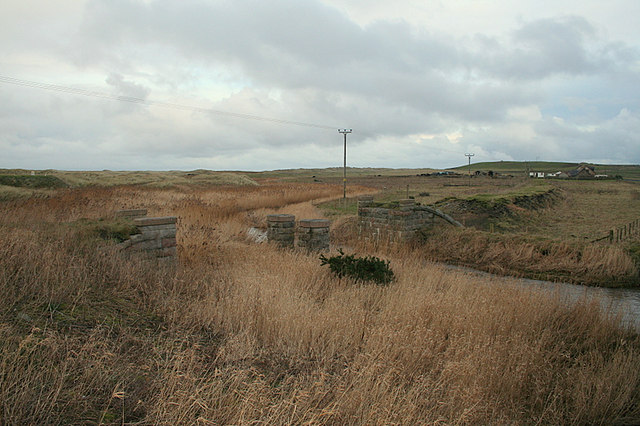 The spans of the old railway bridge of Philorth.